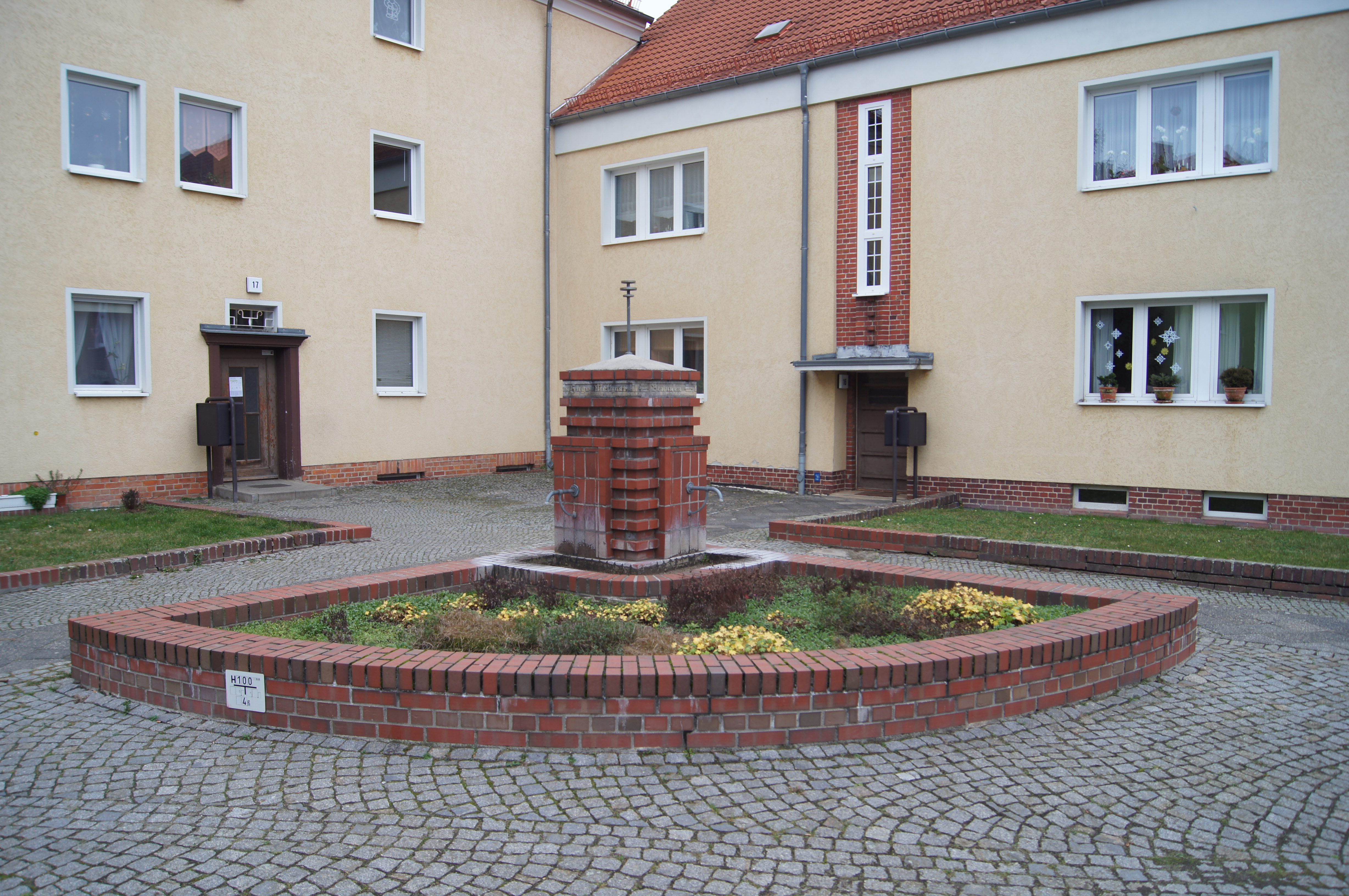 Gewoba Hugo Methner Brunnen 1928 in Frankfurt (Oder), Brandenburg, Germany